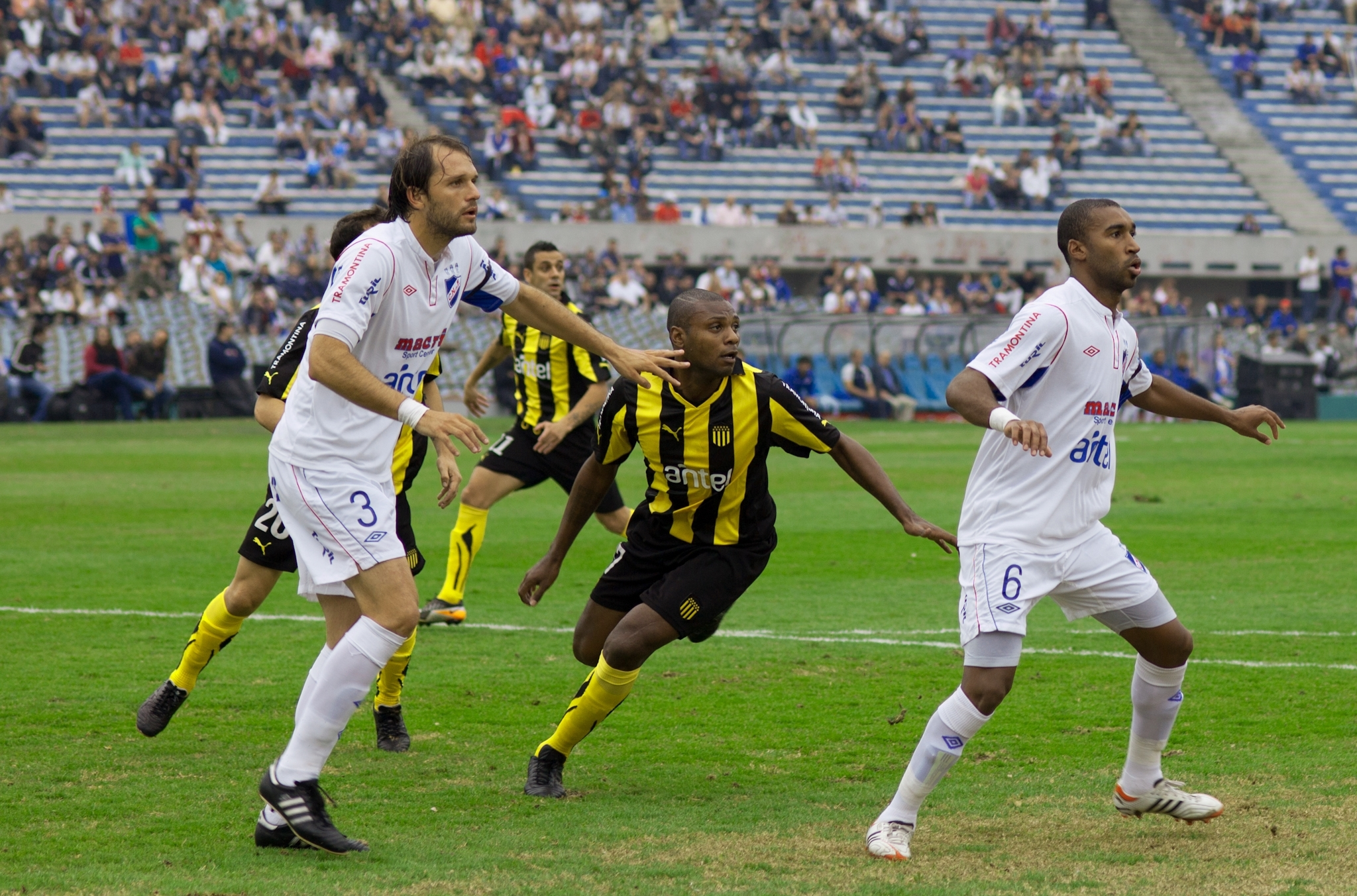 En un clásico raro, accidentado y con mucho gol, Nacional se terminó llevando la victoria por 3 a 2 de la mano de un gran "Chino" Recoba que apareció en el momento justo. Peñarol mereció mejor suerte porque jugó mejor que su rival, tuvo gol y a un gran Marcelo Zalayeta. Pero el conjunto de Da Silva no lo supo aprovechar y cometió errores que fueron letales. . Ref: Gelpi; Emiliano Albín, Carlos Valdez, Alejandro González, Darío Rodríguez; Fabián Estoyanoff, Marcel Novick, Sebastián Cristóforo, Luis Aguiar; Rodrigo Mora y Marcelo Zalayeta. Director técnico: Jorge Da Silva.NACIONAL:Jorge Bava; Andrés Scotti, Jadson Viera, Alexis Rolín, Darwin Torres; Maximiliano Calzada, Facundo Píriz, Tabaré Viudez, Israel Damonte; Richard Porta y Alexander Medina. Director técnico: Marcelo Gallardo.